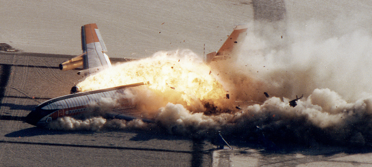 The Controlled Impact Demonstration was an experiment conducted by NASA and the FAA at Edwards Air Force Base in California.